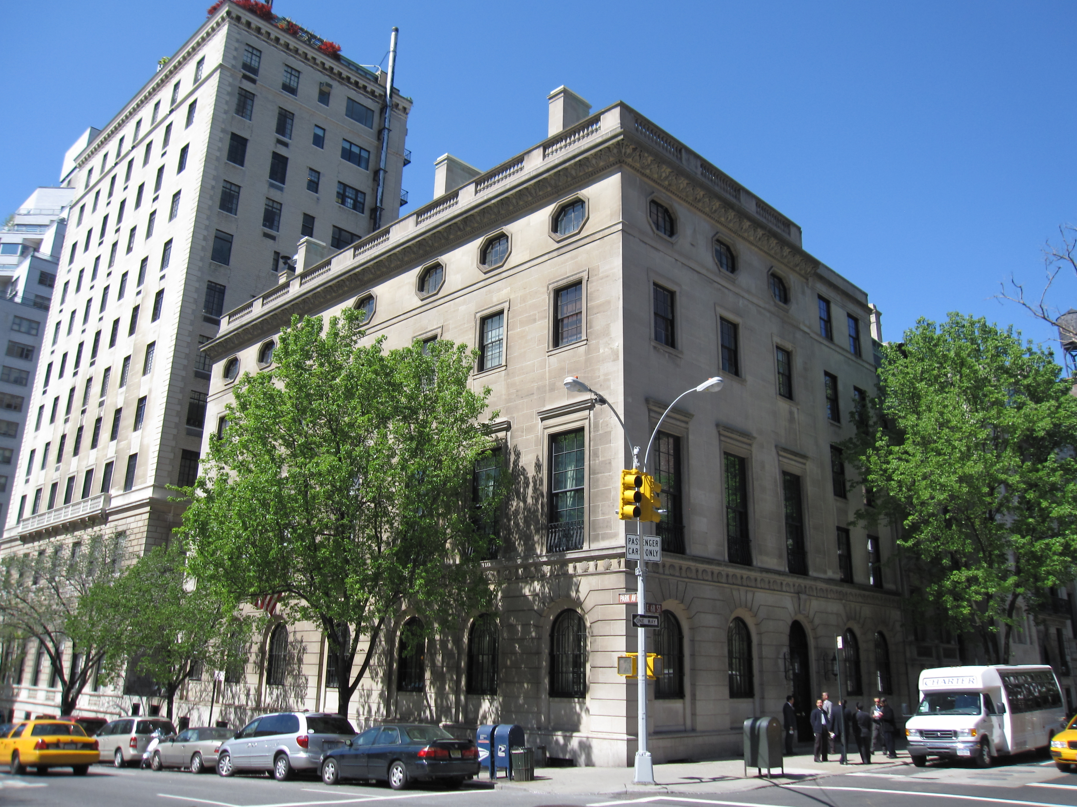 Looking west at Harold Pratt House